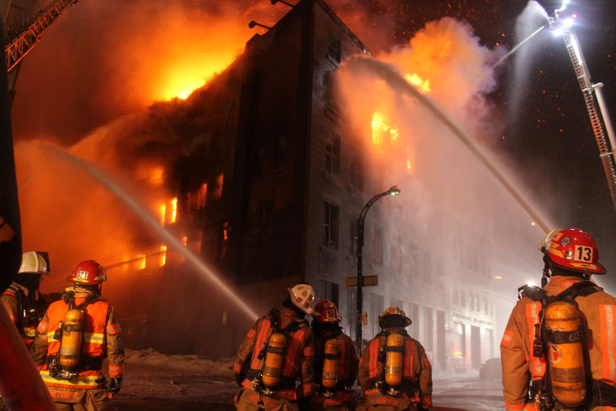 Montreal firefighters at the scene of a fire.